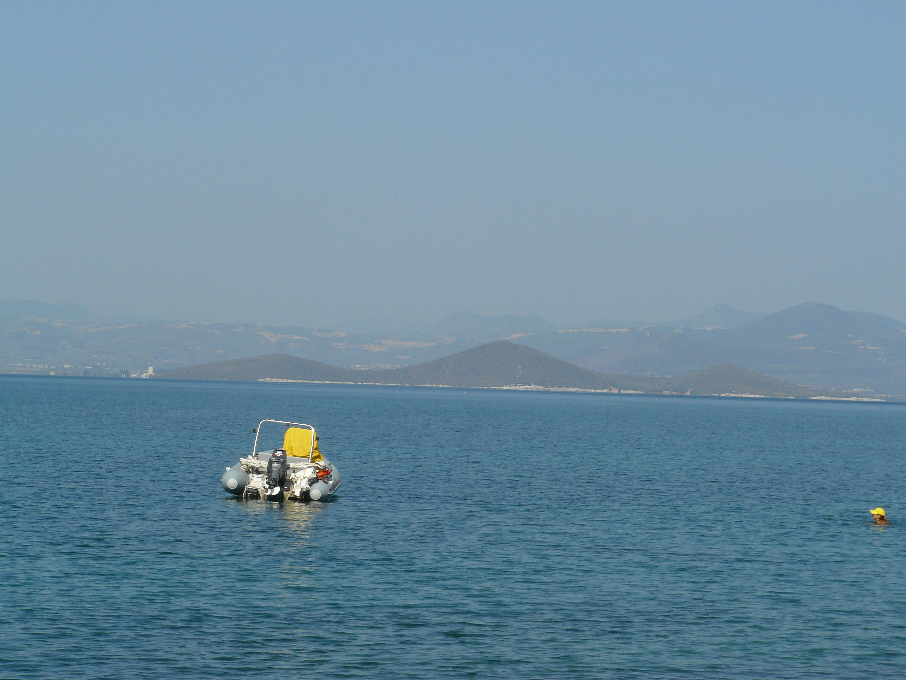 View from Theologos on Atalanti Island.